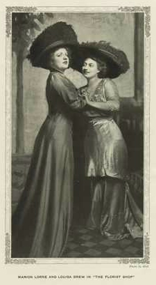 Scan of magazine page showing Marion Lorne as Angelica Perkins and Louise Drew as Irene Baxter in the 1909 New York stage play, The Florist Shop, produced by Henry Wilson Savage at the Liberty Theatre. Play premiered 9 August 1909 [1].